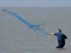 Fishing with a net Downloaded from : Photos and Pictures - Public Domain - Royalty Free License: This image is public domain. You may use this image for any purpose, including commercial. This work is dedicated to the Public Domain.